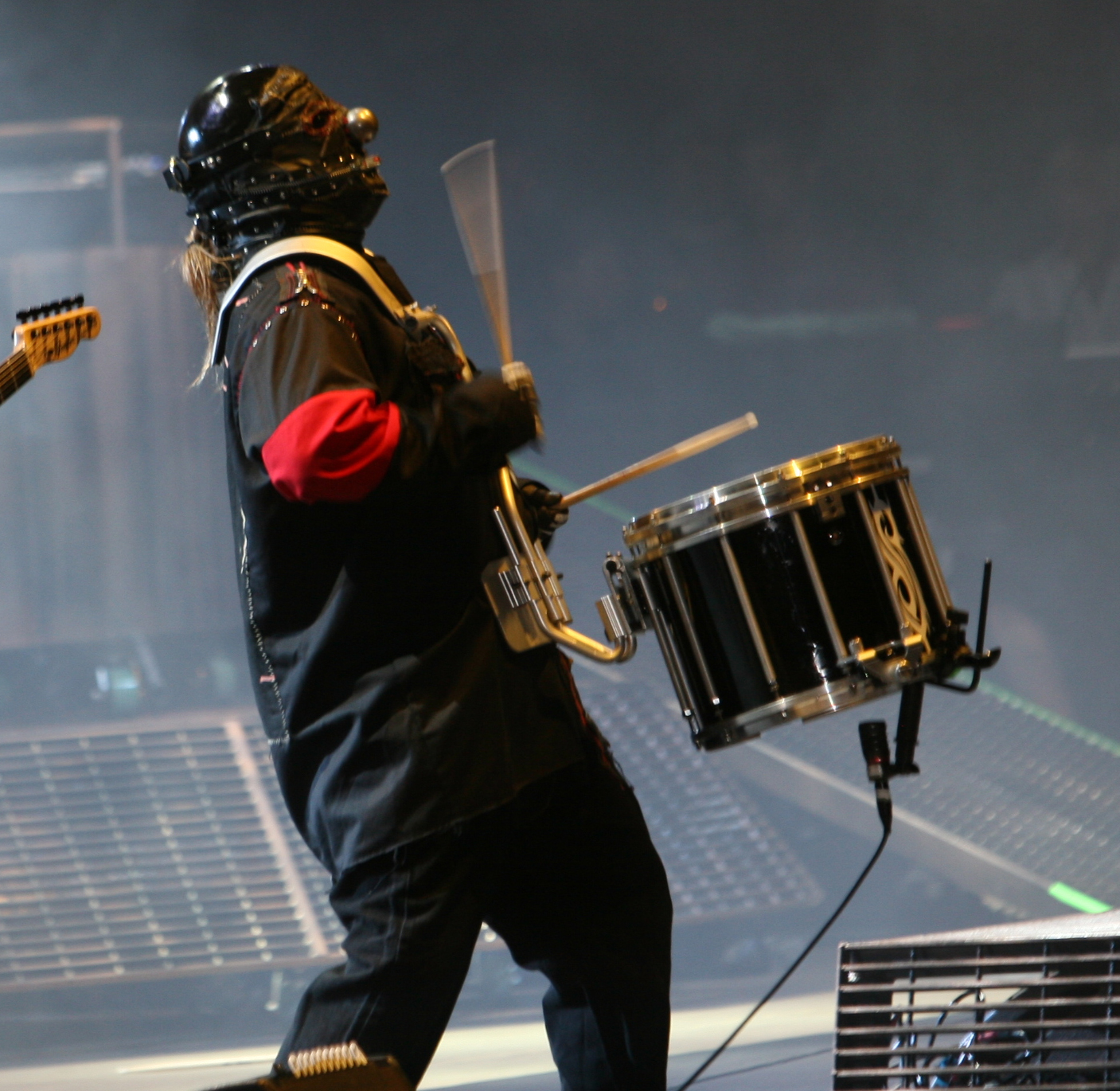 percussionist Shawn Crahan of Slipknot at the mayhem festival 2008.